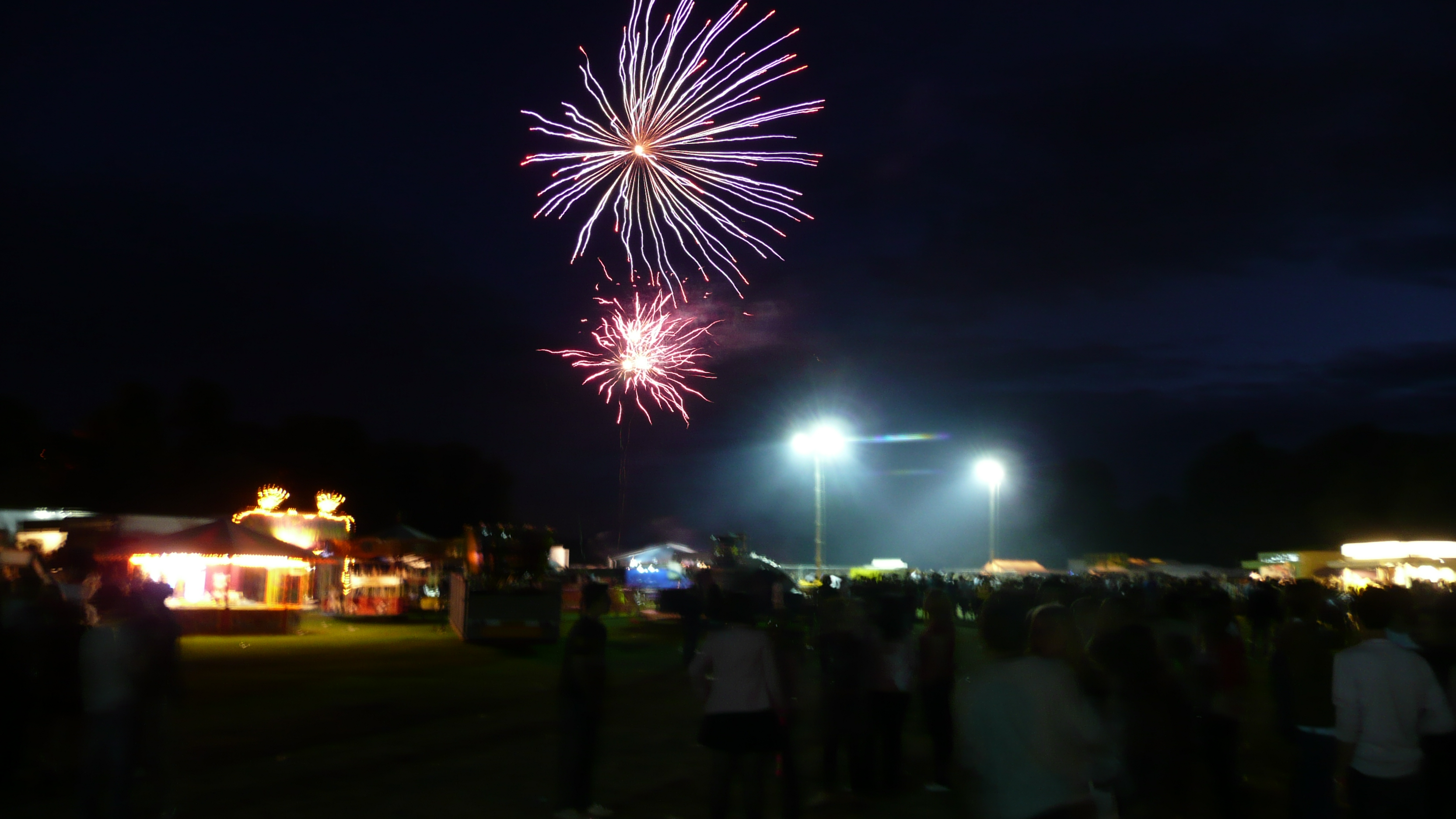 The fireworks finale to the 2008 Stamford Riverside Festival.